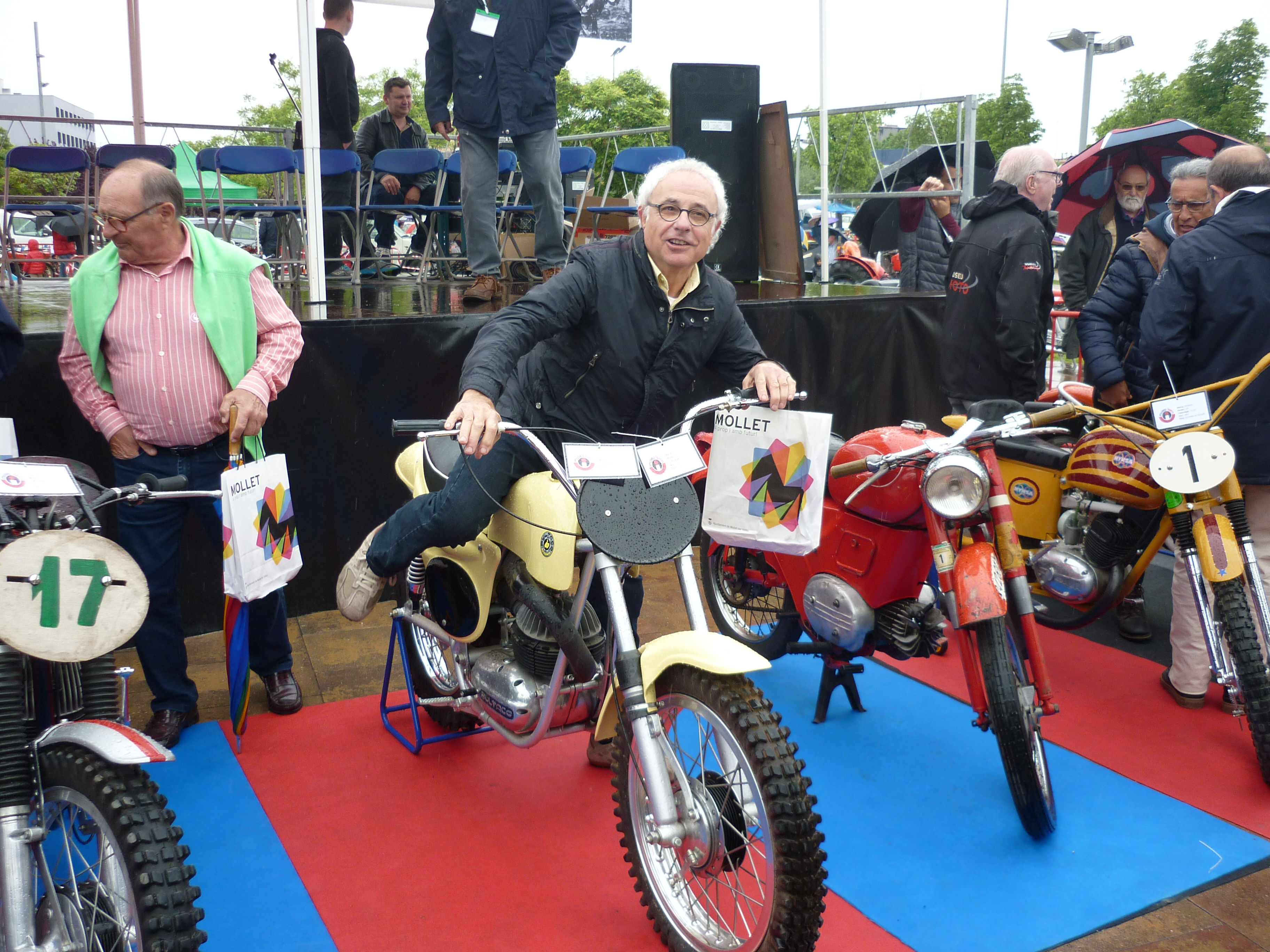 From left to right: Jorge Capapey and Domingo Gris, riding a 1966 Bultaco Métisse